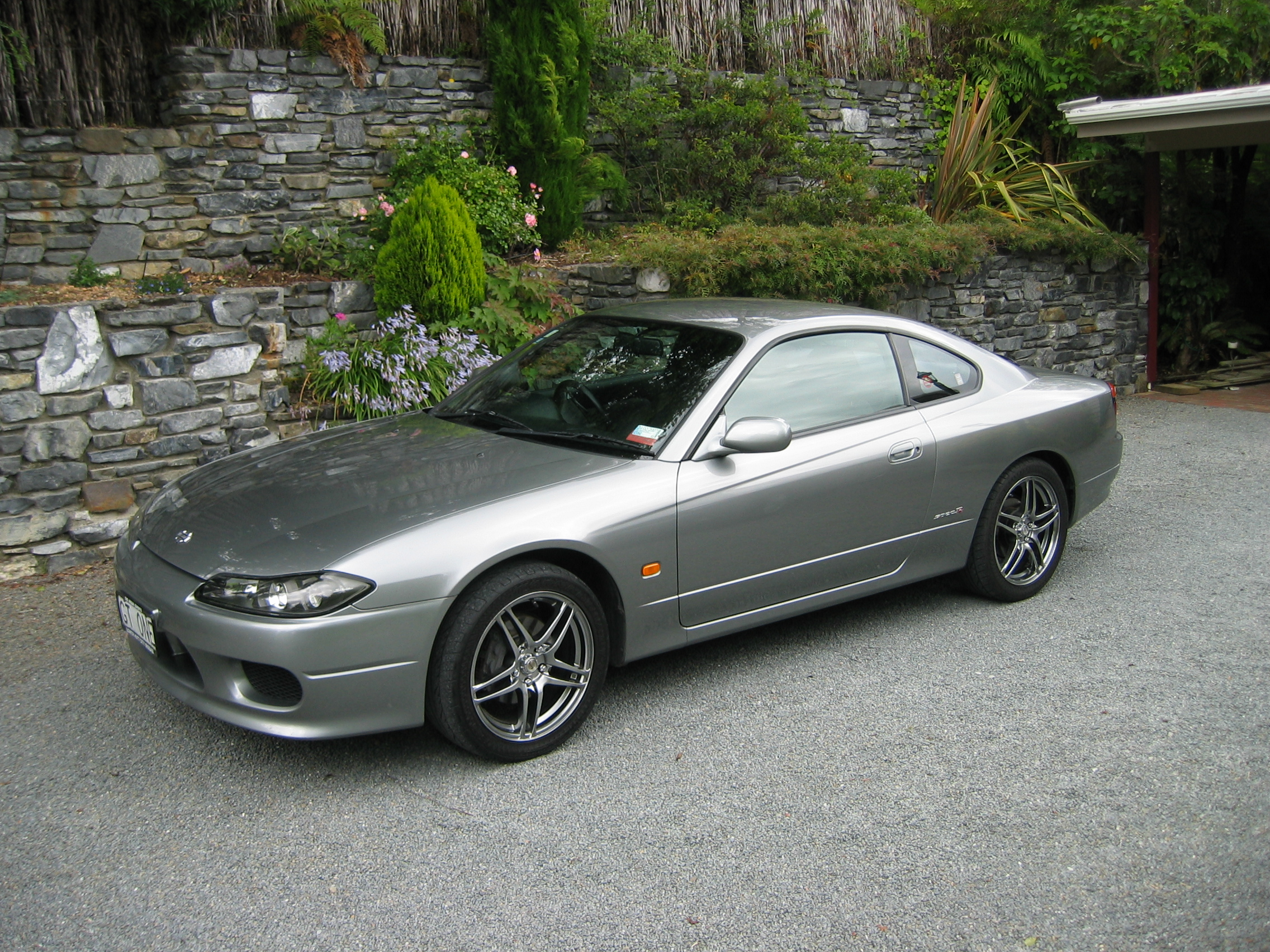 Nissan S15 200SX